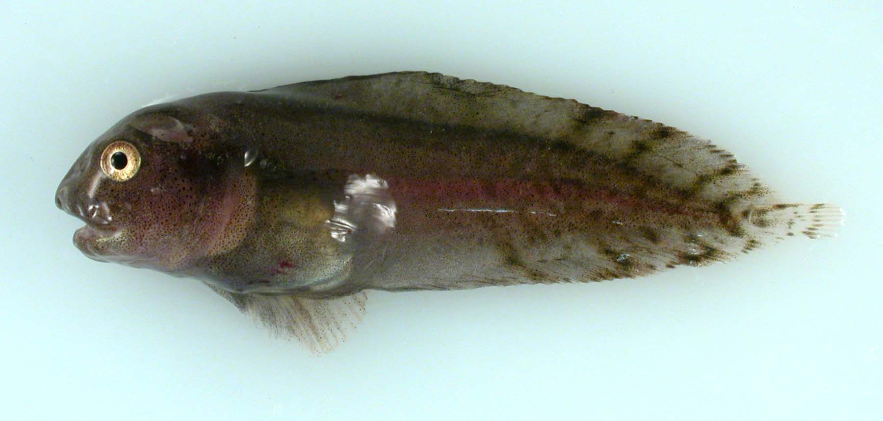 Gelatinous snailfish Liparis fabricii Krøyer, 1847